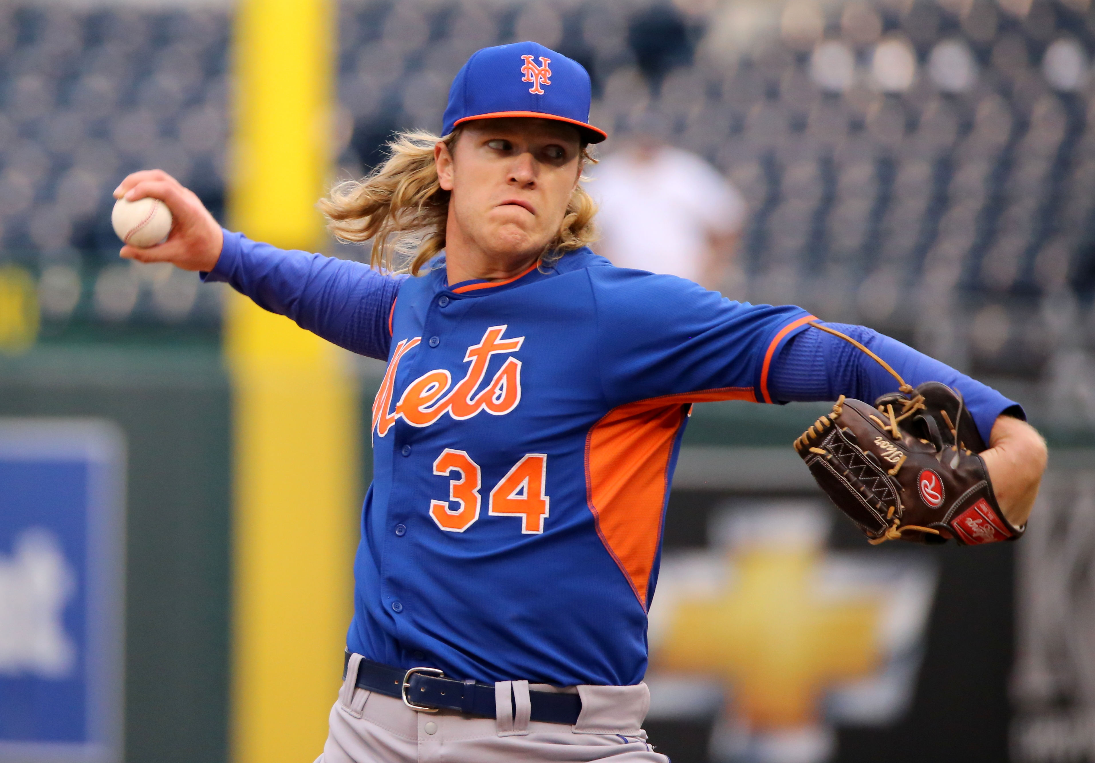 Noah Syndergaard throws live batting practice on #WSMediaDay.